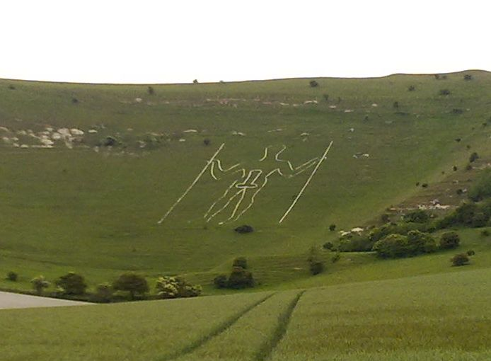 The vandalised Longman with his new giant phallus